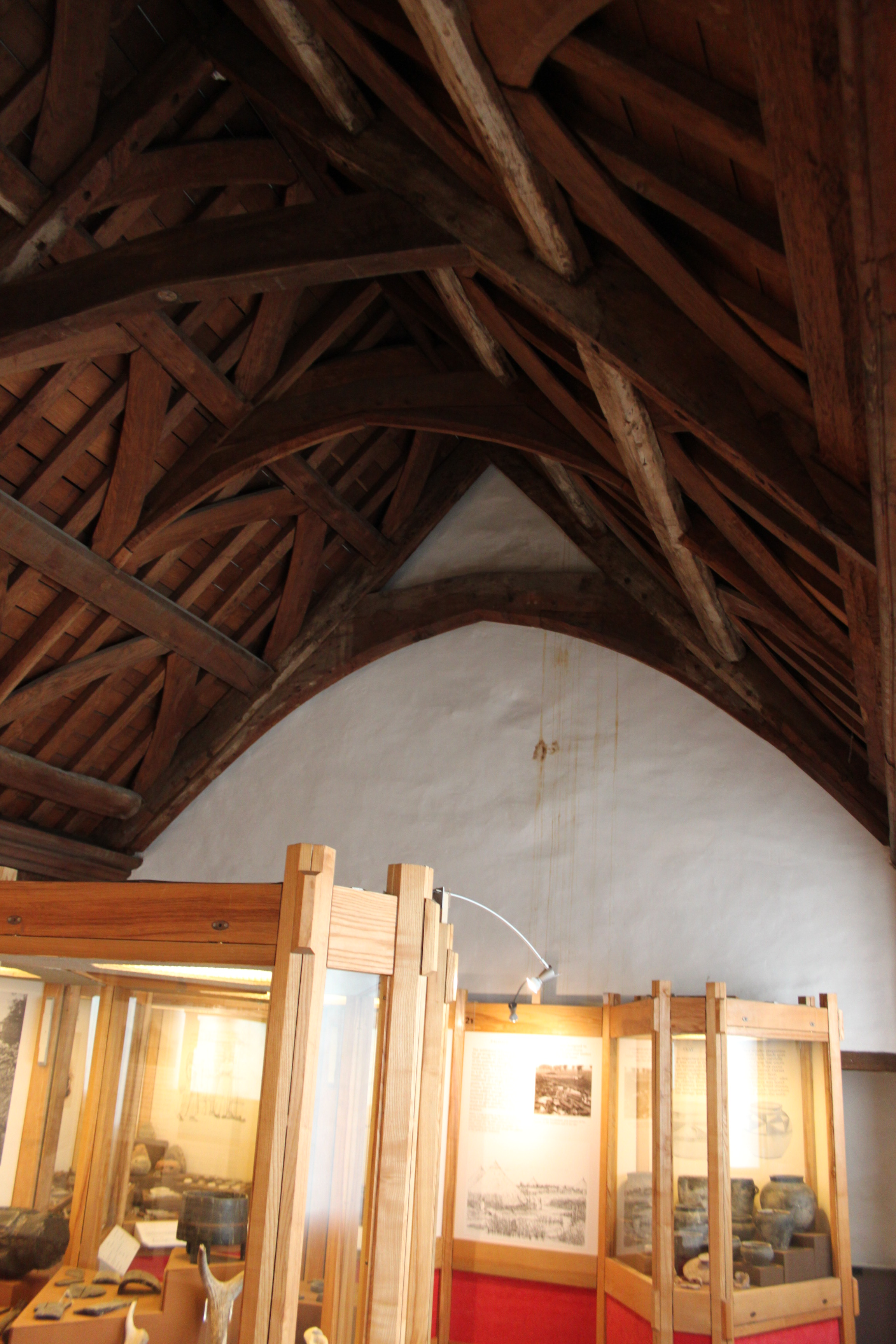 Glastonbury Tribunal roof and displays